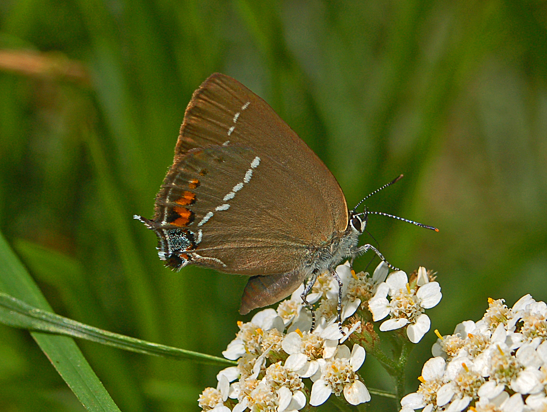 Satyrium spini, underside. Benedicta, Genova, Italy